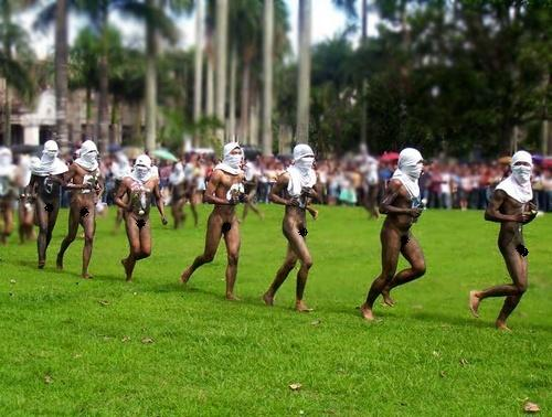 UPLB Oblation Run Dec. 16, 2004